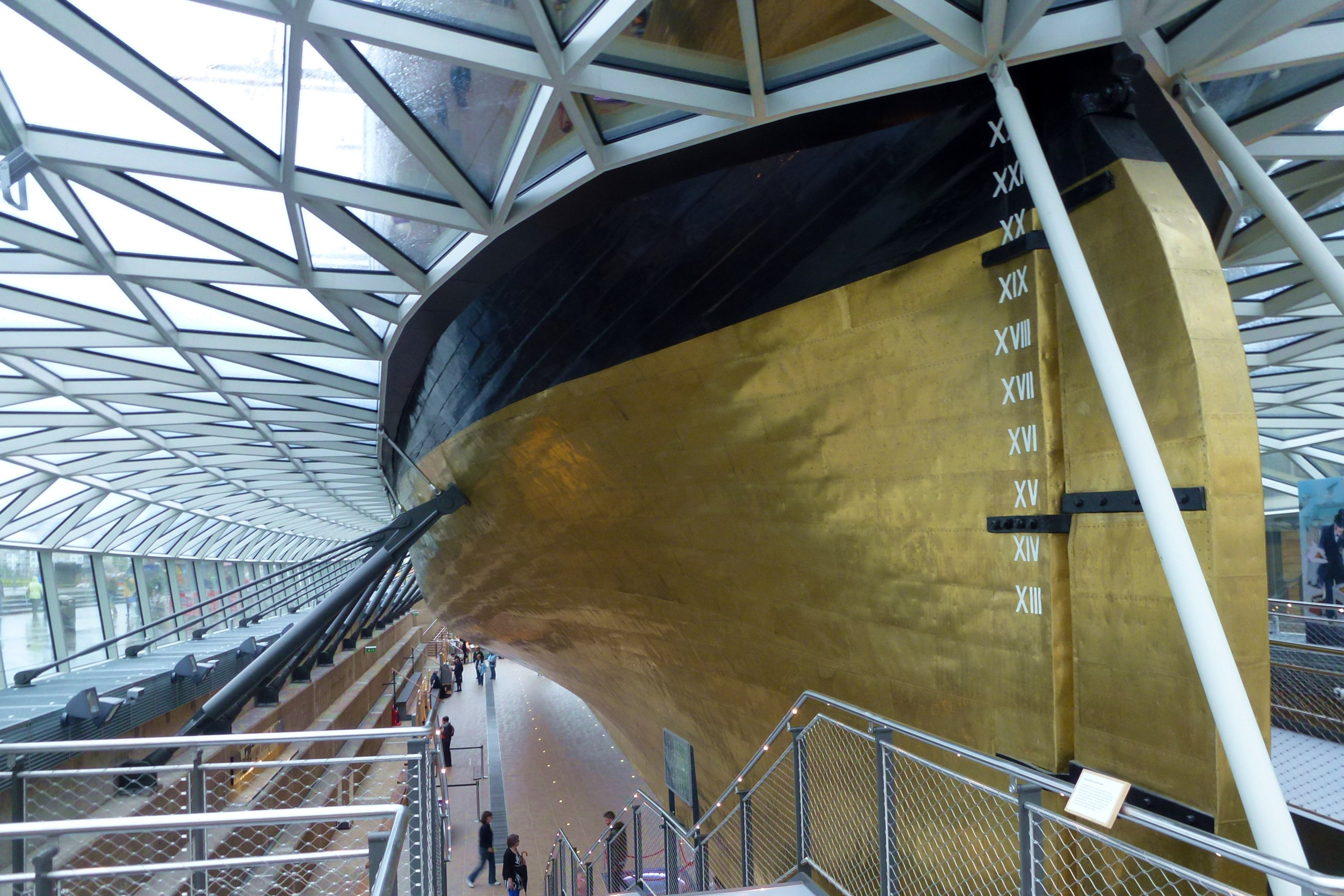 The restored stern (with stern draft and rudder) of the Cutty Sark elevated 3 metres above its dry-dock under its glass-roofed visitors' centre in June 2012.